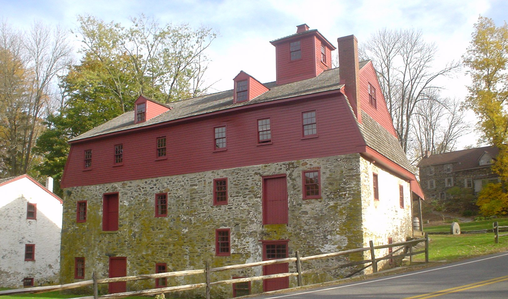 Newlin Mills (NRHP) off US 1 Delaware County, PA.